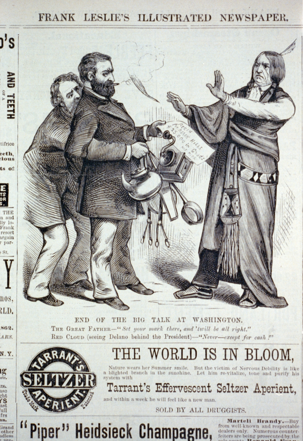 TITLE End of the big talk at Washington SUMMARY Editorial cartoon shows President Ulysses S. Grant, with his arms behind his back and with Interior Secretary Columbus Delano hiding behind him, standing before Red Cloud, Chief of the Oglala Sioux. Delano, extending his arms, pretending to be Grant, offers a handful of cooking utensils and presents a receipt, "Recd. for Black Hills $25,000 in 'Goods'" to Red Cloud, asking him to make his mark. Red Cloud, seeing Delano behind the president, replies, "Never--except for cash!"